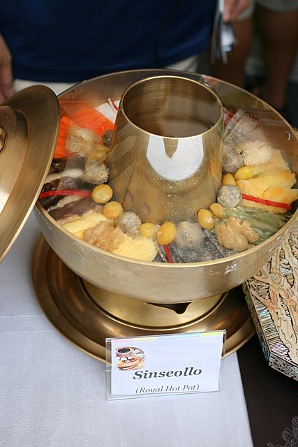 Sinseollo - Korean royal hot pot